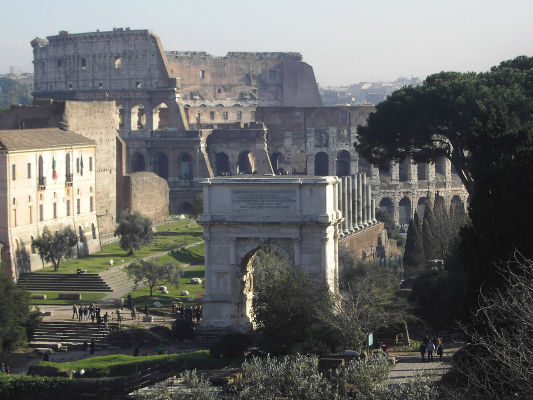 Rome, Arch of Titus.